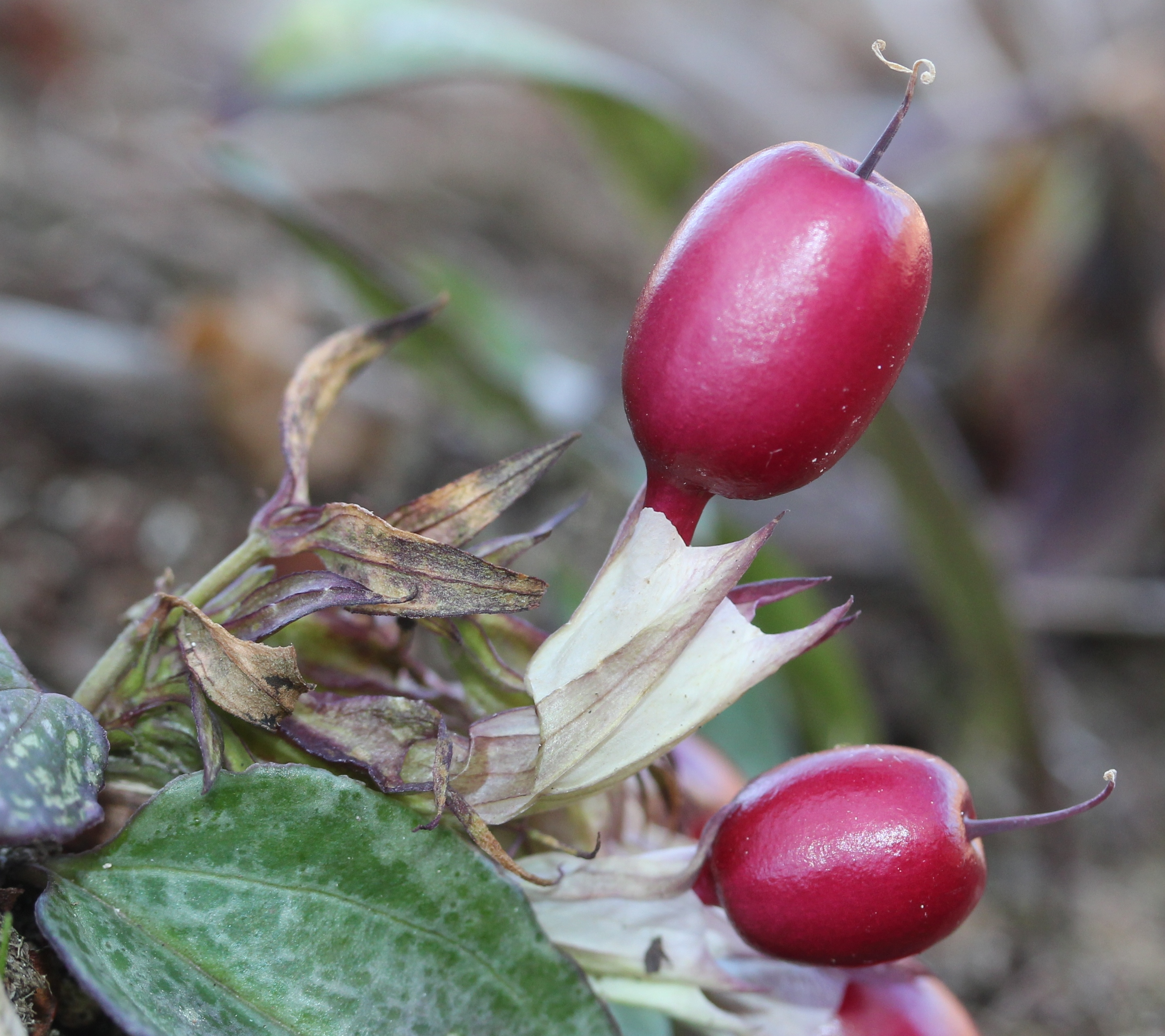 Tripterospermum japonicum with red ｆruits in Mount Fukube, Gujō, Gifu prefecture, Japan.